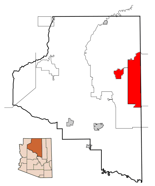 This map shows the Hopi reservation in Coconino County, Arizona. .